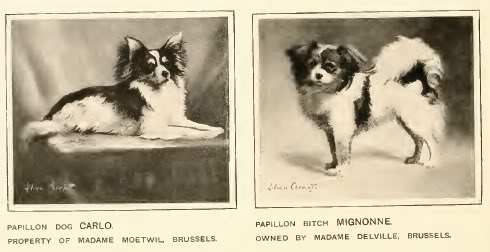 Papillons circa 1911.